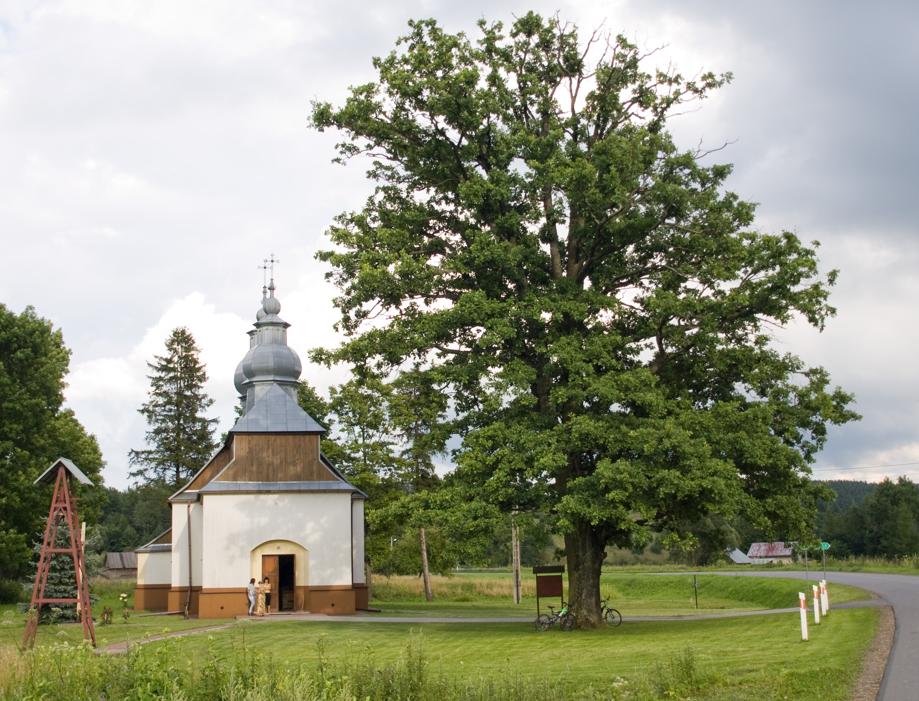 Church, Malawa, Subcarpathian Voivodeship